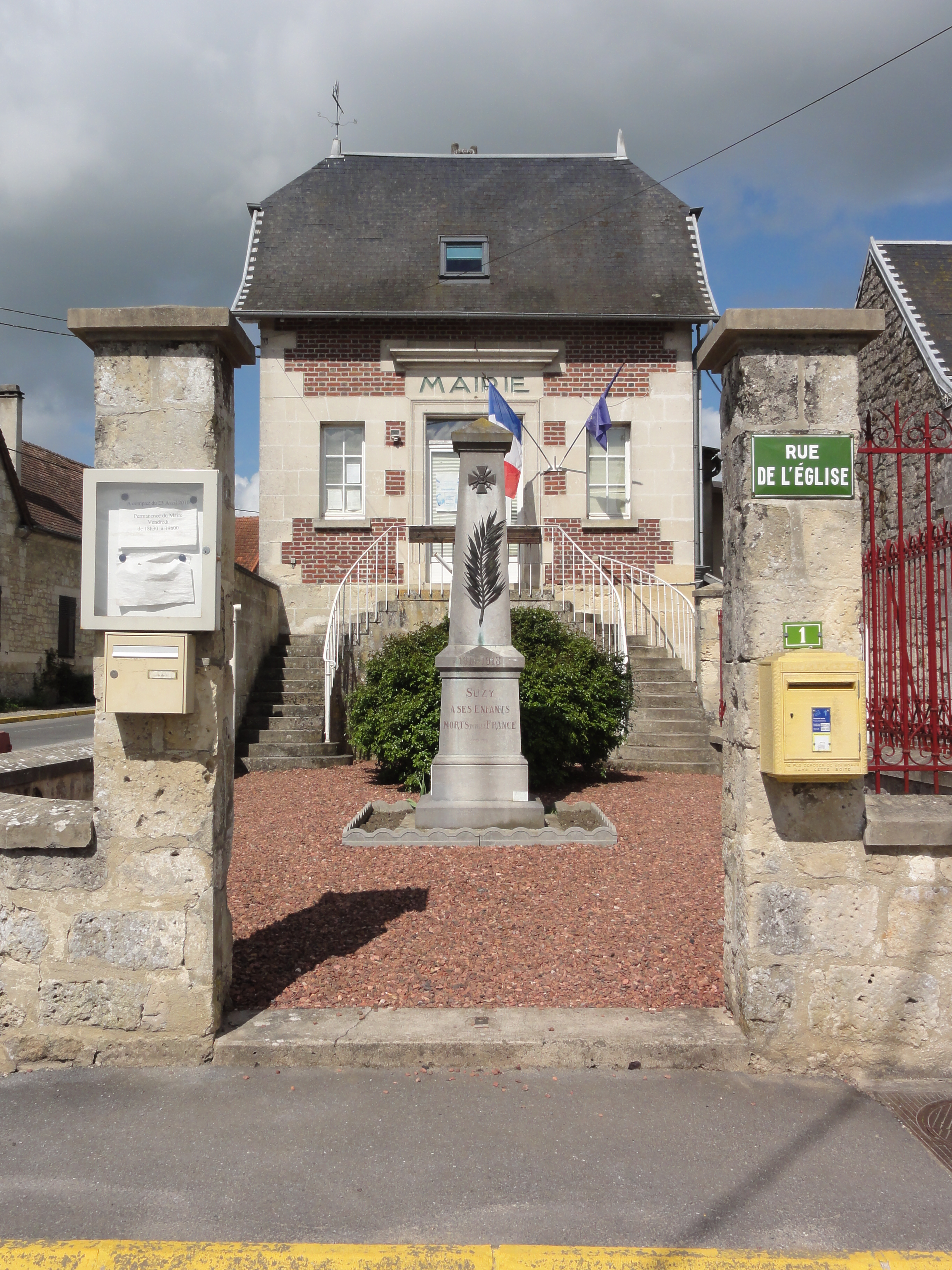 Suzy (Aisne) mairie